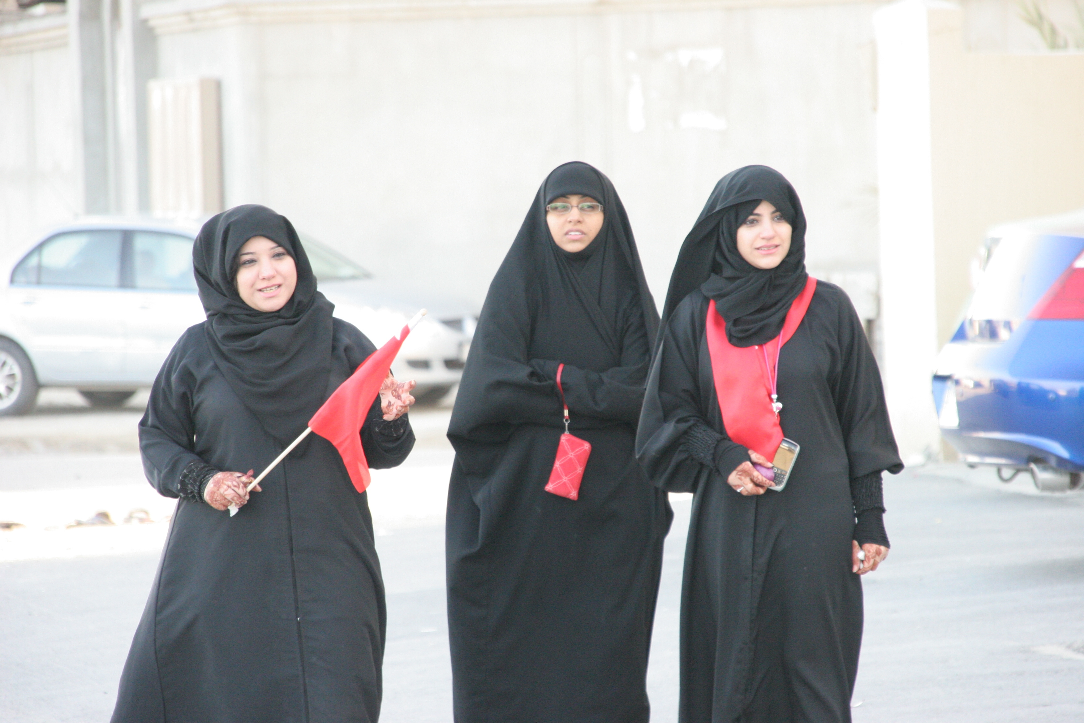 Bahraini women during the protestsIn Bahrain, witnesses say riot police have tried to disperse protesters with tear gas and rubber bullets. The clashes took place as officers attempted to stop people gathering for a major rally in the capital, Manama. It follows demonstrations on Sunday, with protesters calling for reform in the island kingdom. Bahrain has Sunni muslim rulers but the population is 70 per cent Shia, who claim they are regularly discriminated against.